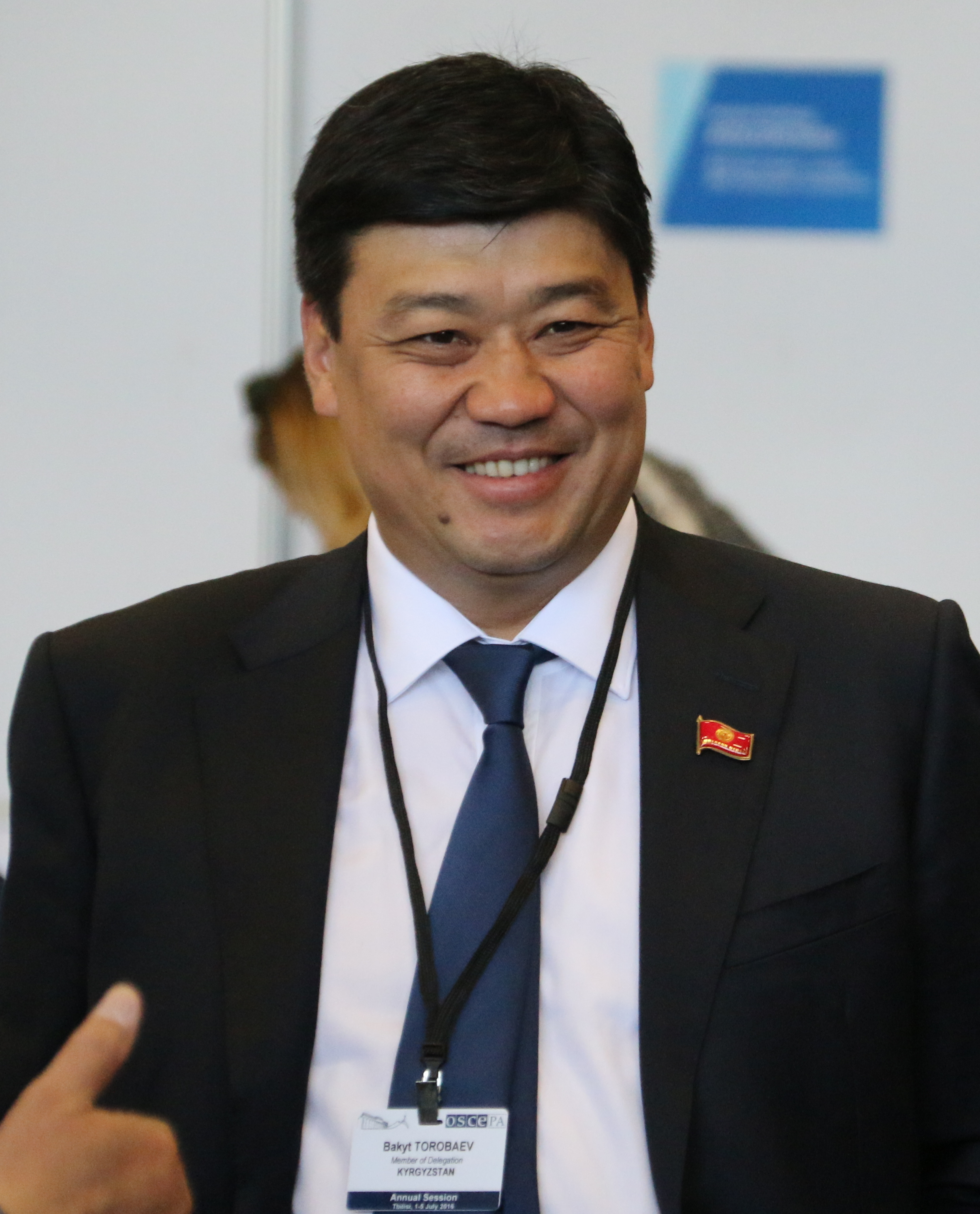 Bakyt Torobayev, Kyrgyz politician at the OSCE Parliamentary Assembly, July 2016